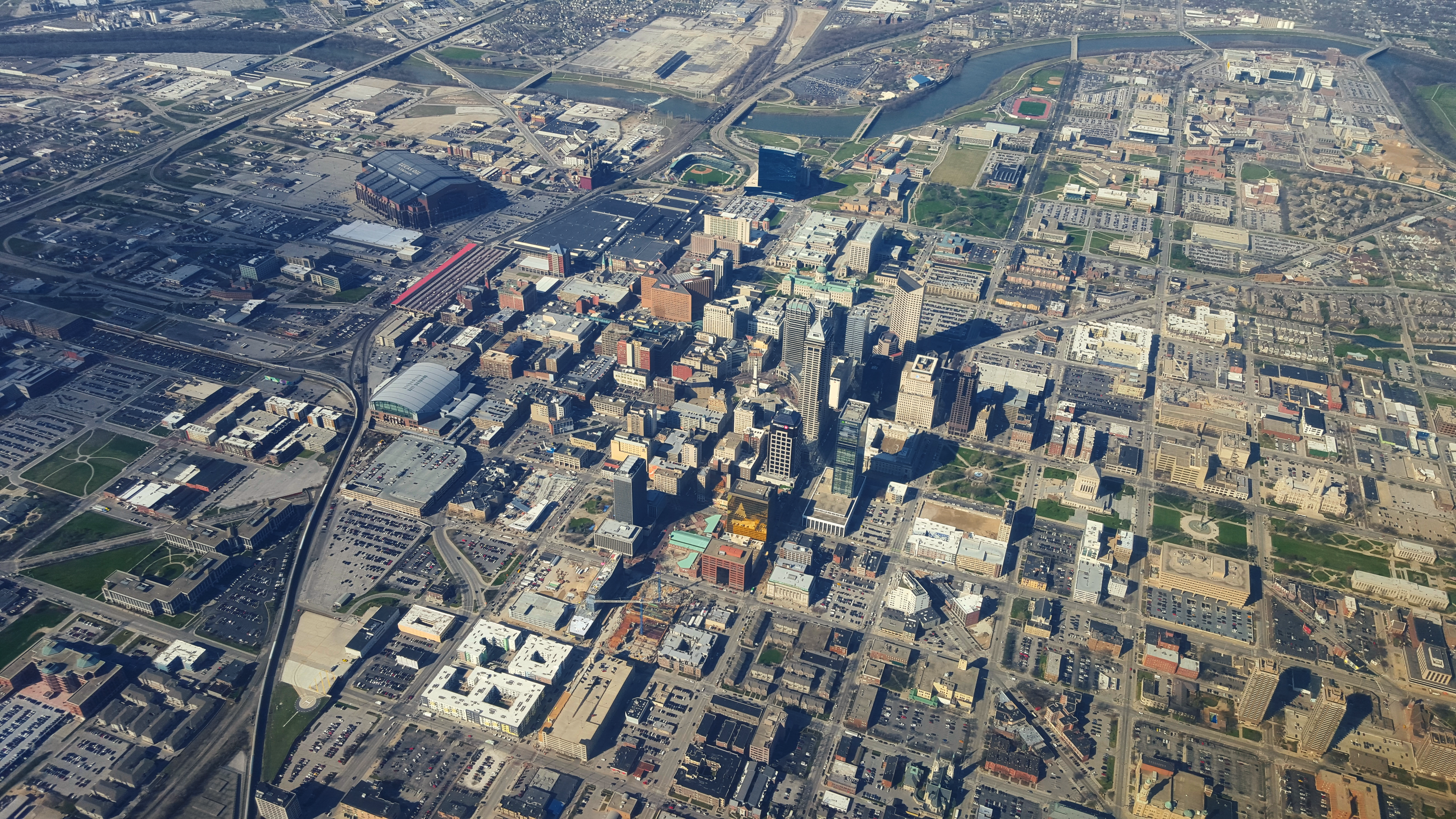 Aerial of downtown Indianapolis, looking southwest. The photo depicts the central business district (center), with landmarks including the White River (top), Indiana University - Purdue University Indianapolis (top right), and Lucas Oil Stadium (top left).